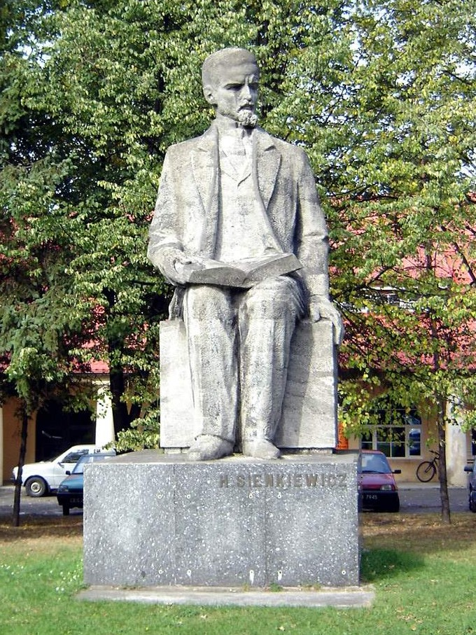 Henryk Sienkiewicz monument in Częstochowa